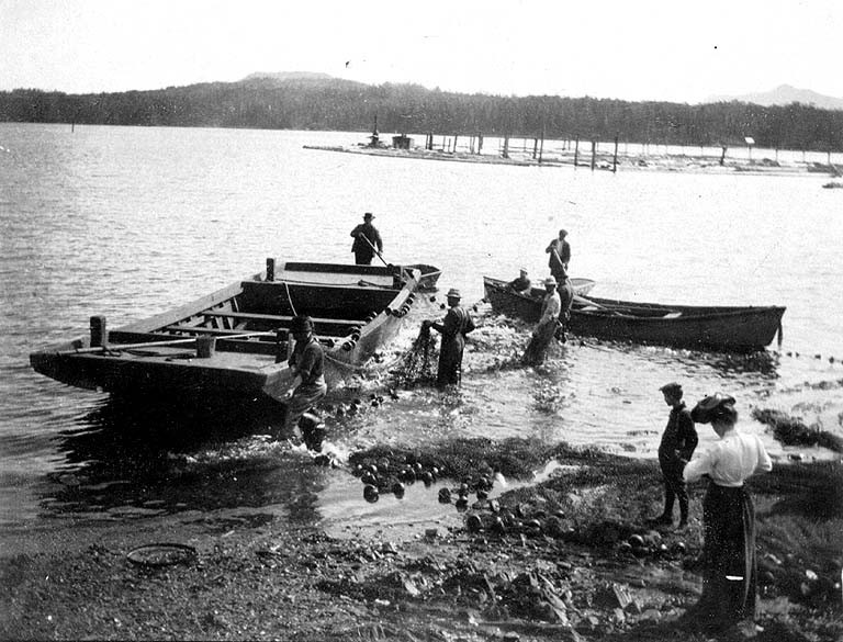 On verso of image: Seine fishing on Ketchikan Creek, Alaska In Folder 97 Subjects (LCTGM): Fishermen--Alaska--Ketchikan Creek Subjects (LCSH): Seining--Alaska--Ketchikan Creek; Scows--Alaska--Ketchikan Creek